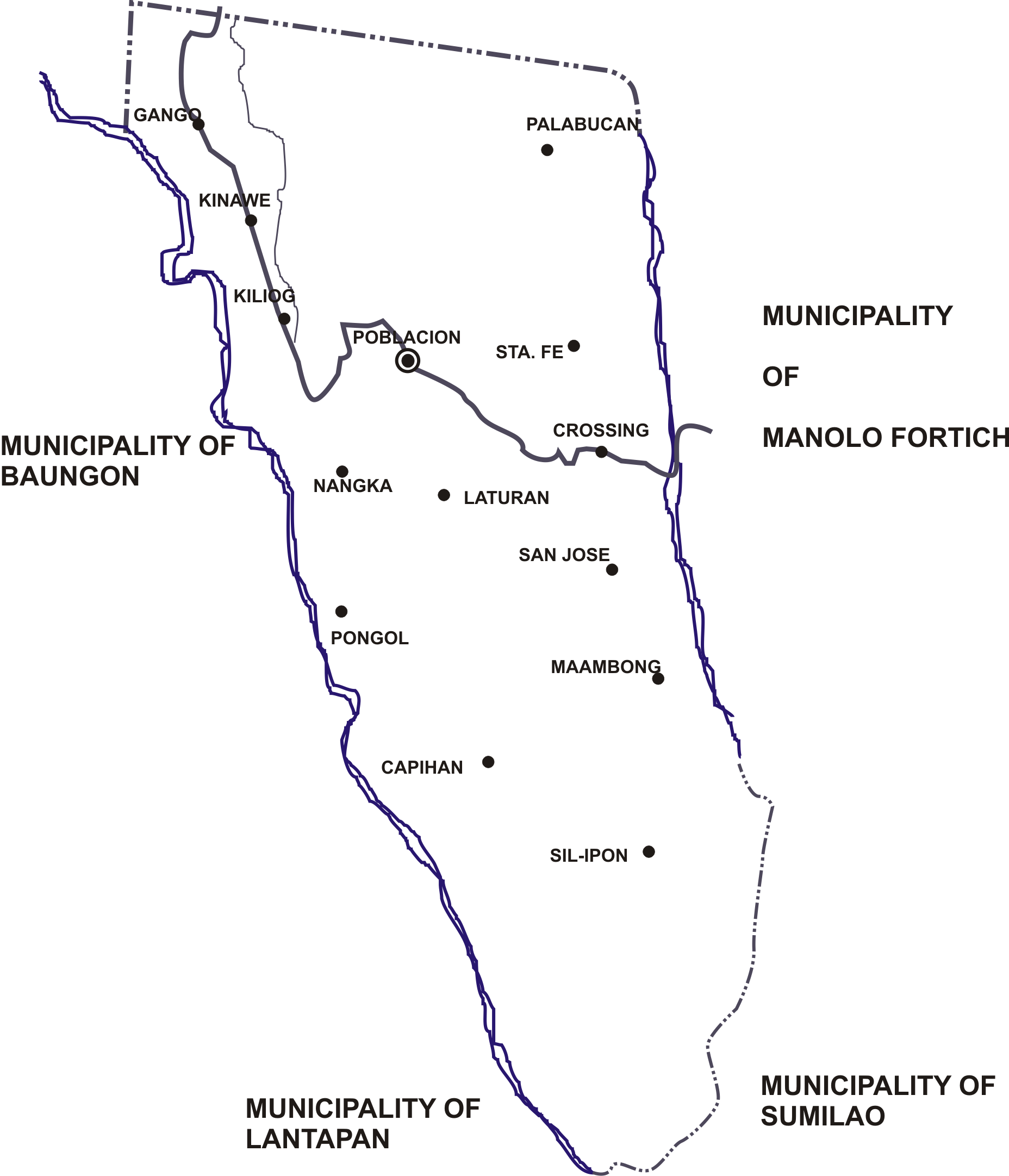 Political map of Libona, Bukidnon